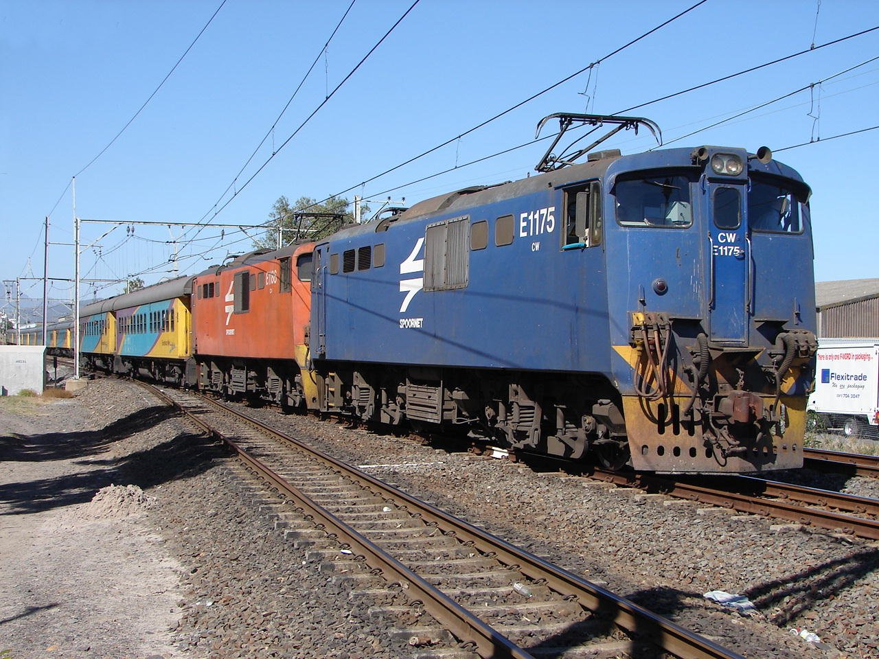 SAR Class 6E E1175 Location: Stikland, Cape Town, with the Shosholoza Meyl